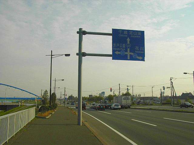 National Highway 231. Ishikari, Hokkaido prefecture, Japan